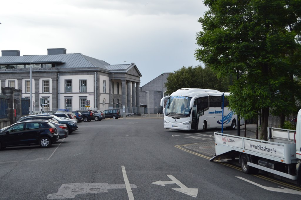 Merchants Quay